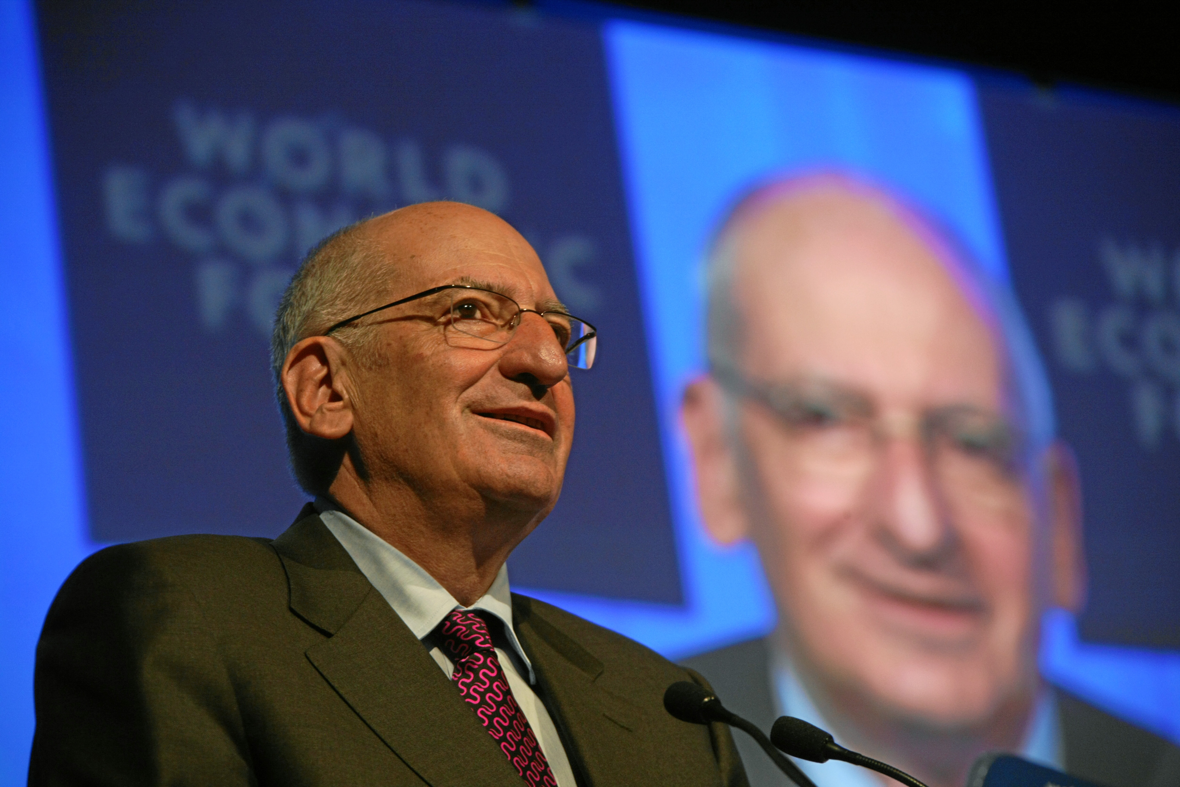 DAVOS/SWITZERLAND, 23JAN08 - Pascal Couchepin, President of the Swiss Confederation, captured during the 'Welcome to the Annual Meeting' at the Annual Meeting 2008 of the World Economic Forum in Davos, Switzerland, January 23, 2008.